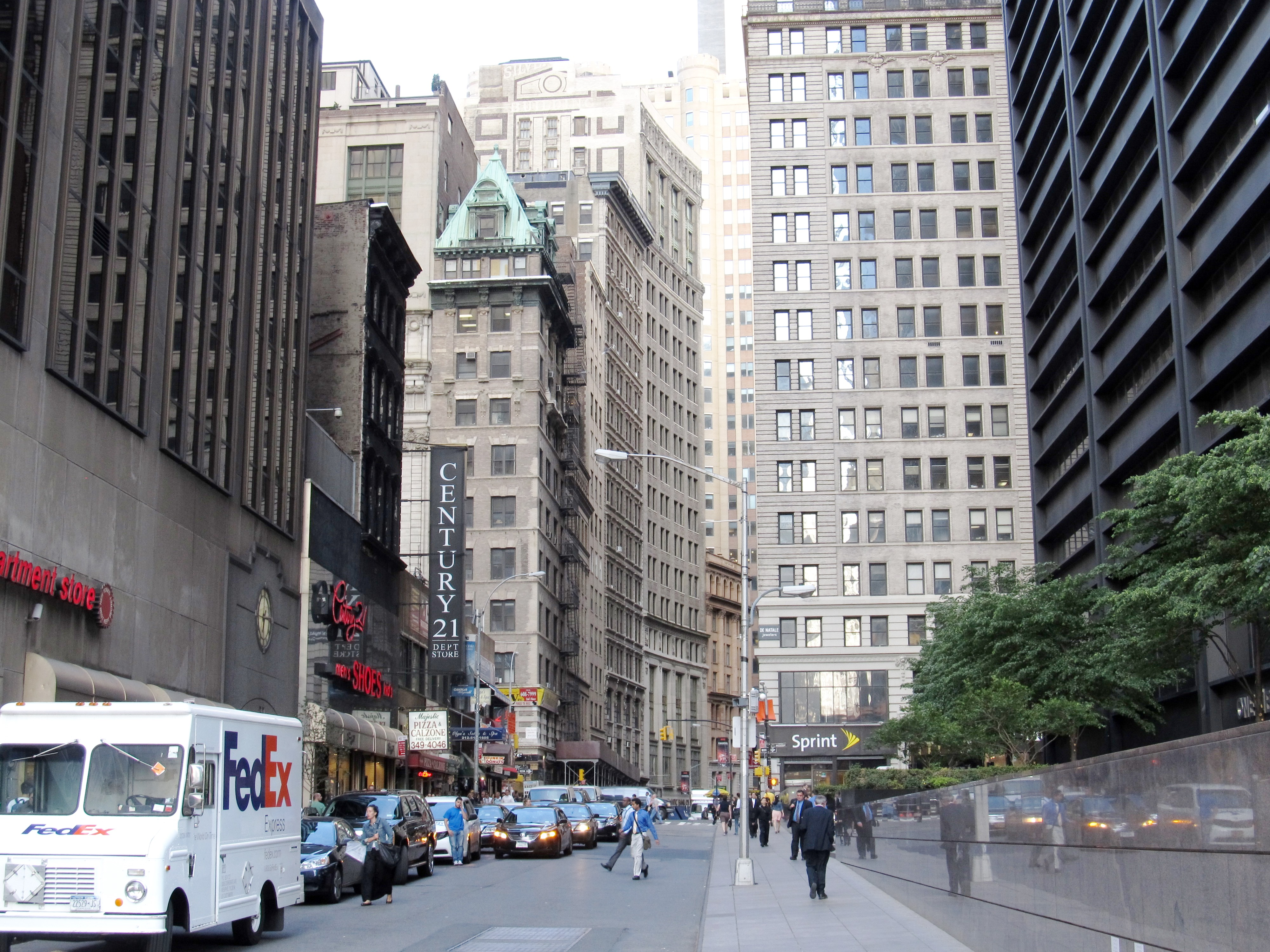 Next to One Liberty Plaza, with World Trade Center site immediately behind me.